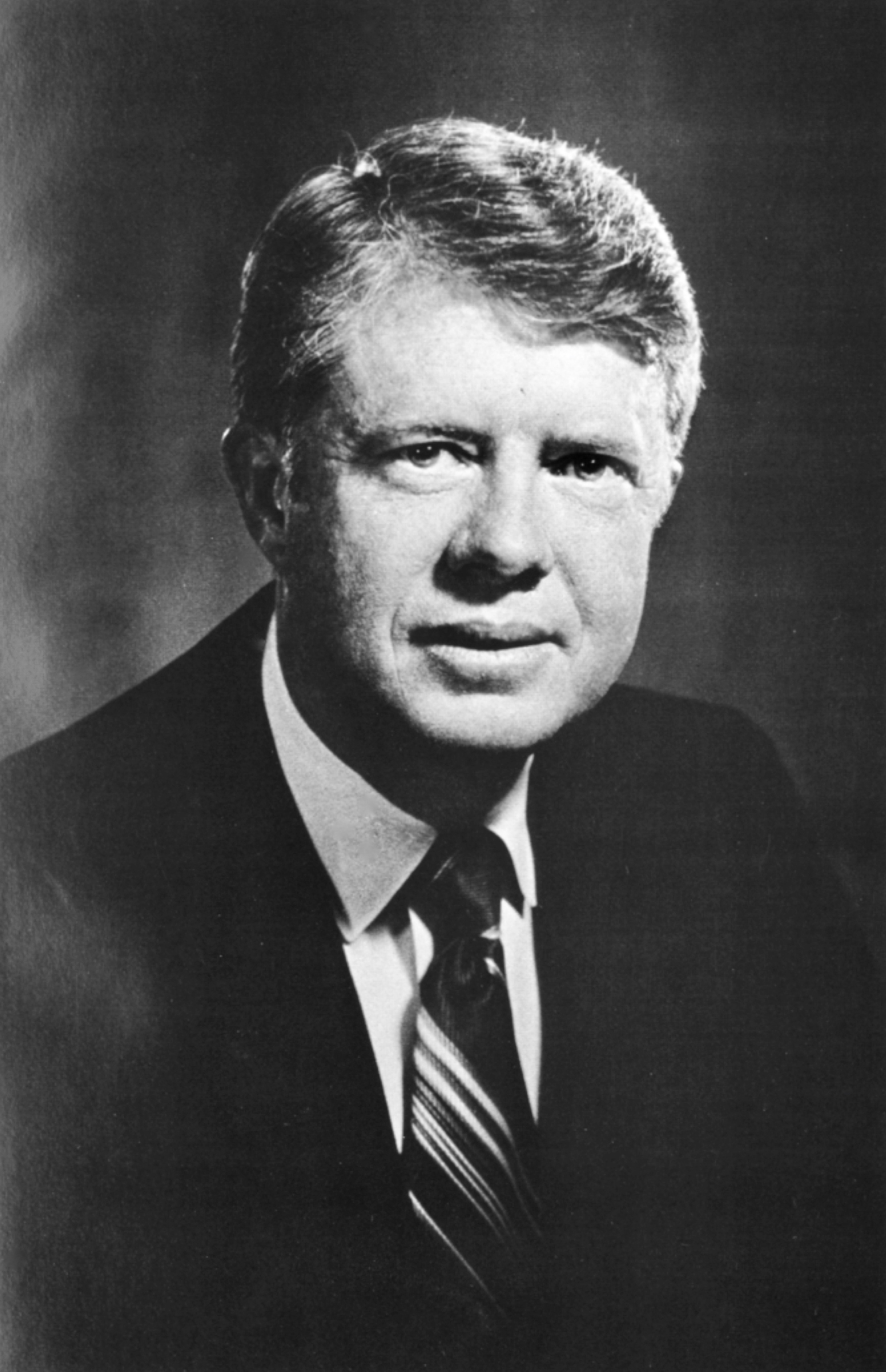 Jimmy Carter in 1971 as Governor of Georgia